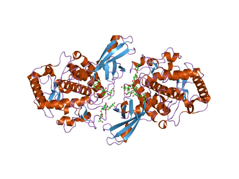 Cartoon representation of the molecular structure of protein registered with 1js8 code.